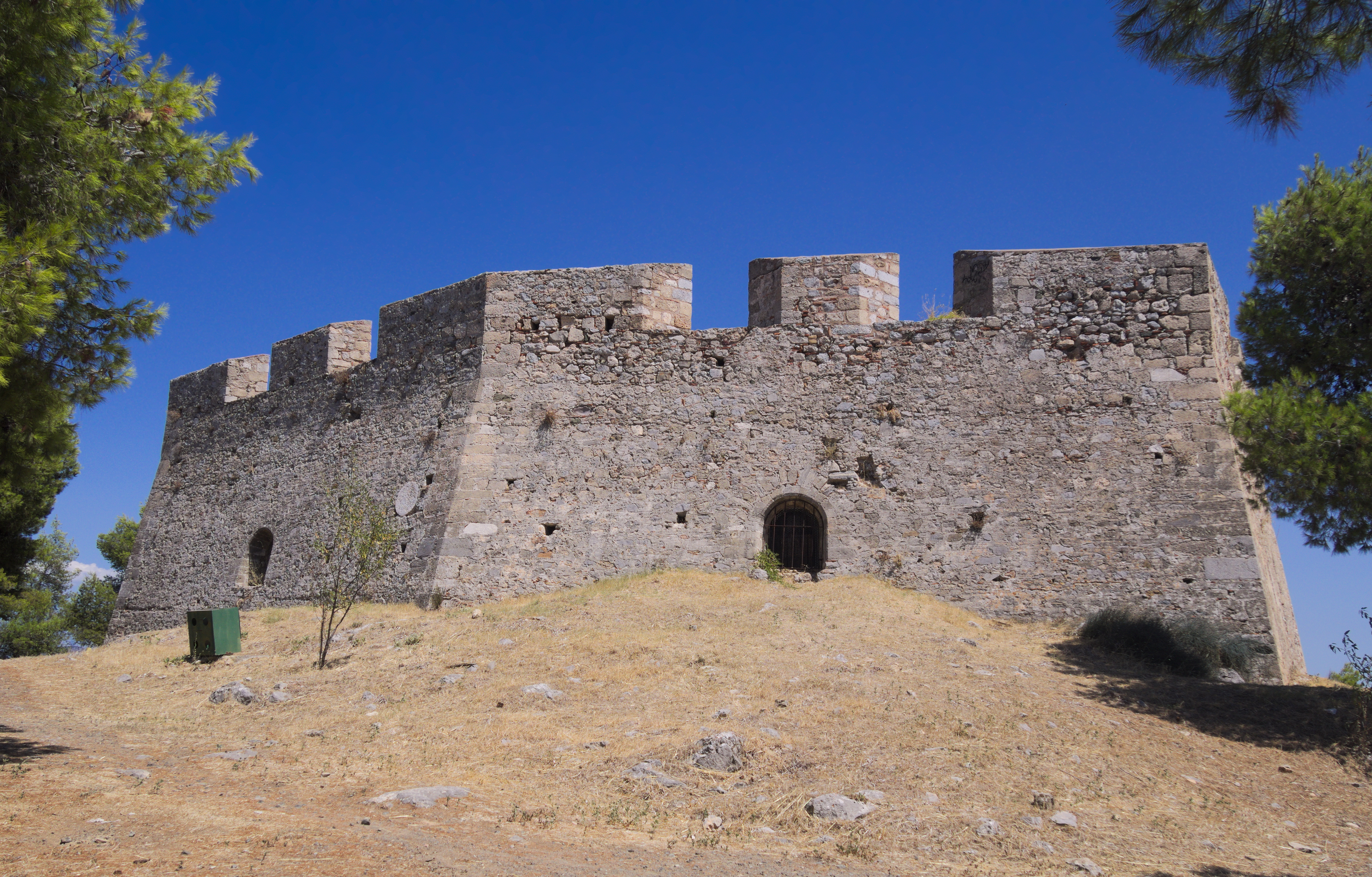 The west tower of Karababas castle, Chalkida.